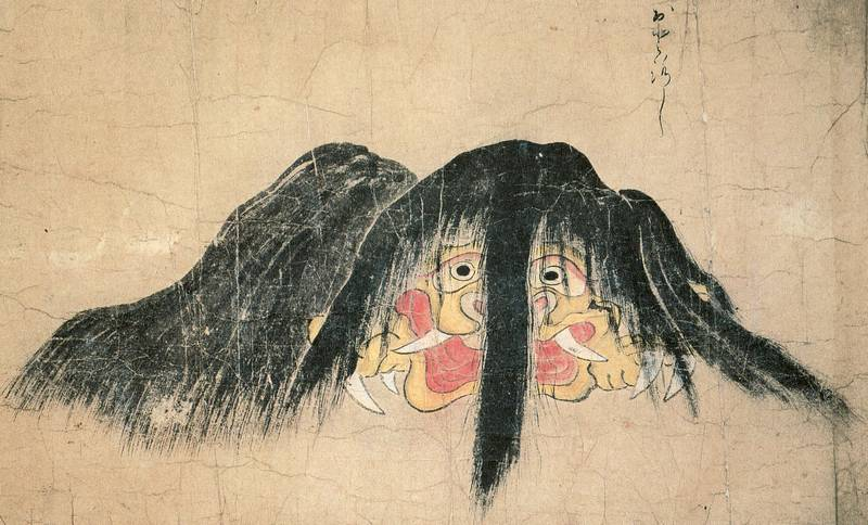 Odoro-odoro (おどろおどろ) from the Bakemono-dukushi (化物づくし)